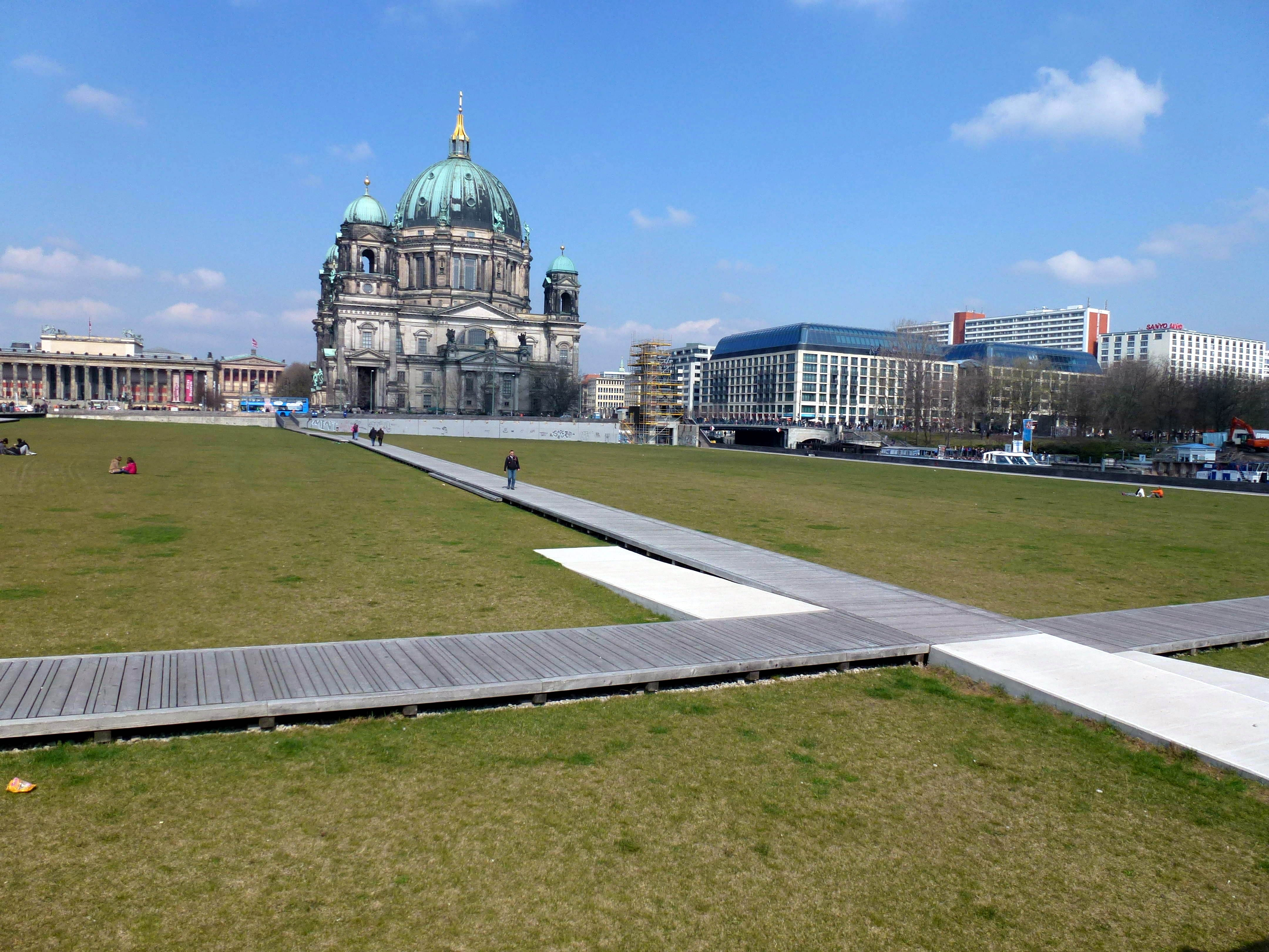 Berlin-Mitte Schloßplatz April 2012